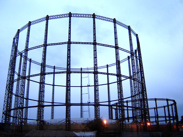 Gasometers in Haggerston, Hackney, London. 8 October 2005. Photographer: Fin Fahey.